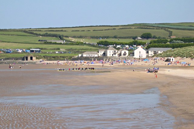 Croyde Bay